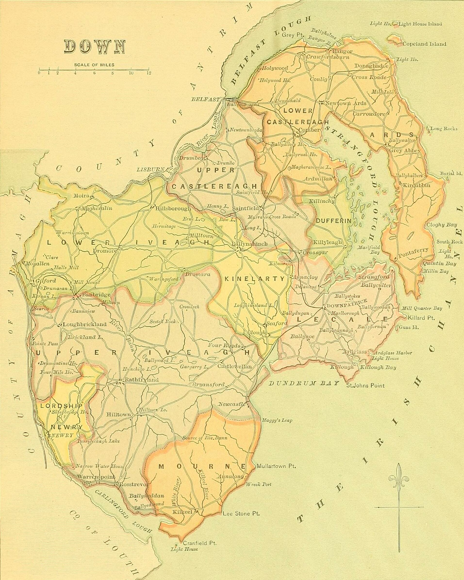 Title: Picturesque Ireland : a literary and artistic delineation of the natural scenery, remarkable places, historical antiquities, public buildings, ancient abbeys, towers, castles, and other romantic and attractive features of Ireland Year: 1885 (1880s) Authors: Savage, John, 1828-1888, ed Subjects: Publisher: New York, T. Kelly Text Appearing Before Image: hel. TiPPERARY, an inland county in the province of Munster, is distinguished asone of the most exuberantly productive counties in Ireland. The surface pre-sents a number of extensive fertile tracts of undulating and champaign country,diversified with woods, and separated by mountain ranges, variously graceful andrugged, and always picturesque. These ranges are the Galtees (3,000 feet) ;Knockmeledown (2,700), on the border of Waterford, and extending westwardinto Cork ; Slieve-na-man (2,364,) also on the south, looking across the Suir atthe Commeraghs ; on the northwest the Keeper Mountains (2,100); northeastthe Devils Bit Mountain.^., rising abruptly near Roscrea, and extending in asouthwesterly direction to Burrisoleigh, the highest summit being 1583 feet; onthe east the Slieve-ardagh hills. The narrow ridge of Slieve-na-muck, 1,215feet, extends from the Limerick border to the rear of Tipperary town, and between it and the Galtees is the beautiful glen, or rather valley of Aherlo602 Text Appearing After Image: Copjriglit,18S0,by Ttionias Kelly, New York. Ruasi.-ll & Struthers, Eugrs N.Y.